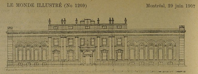 From: Embellissement de Rideau Hall Le Monde illustré, Vol. 24, no. 1209, pp. 268 (29 juin 1907) Gravure Accompagnée d'un texte en page 268